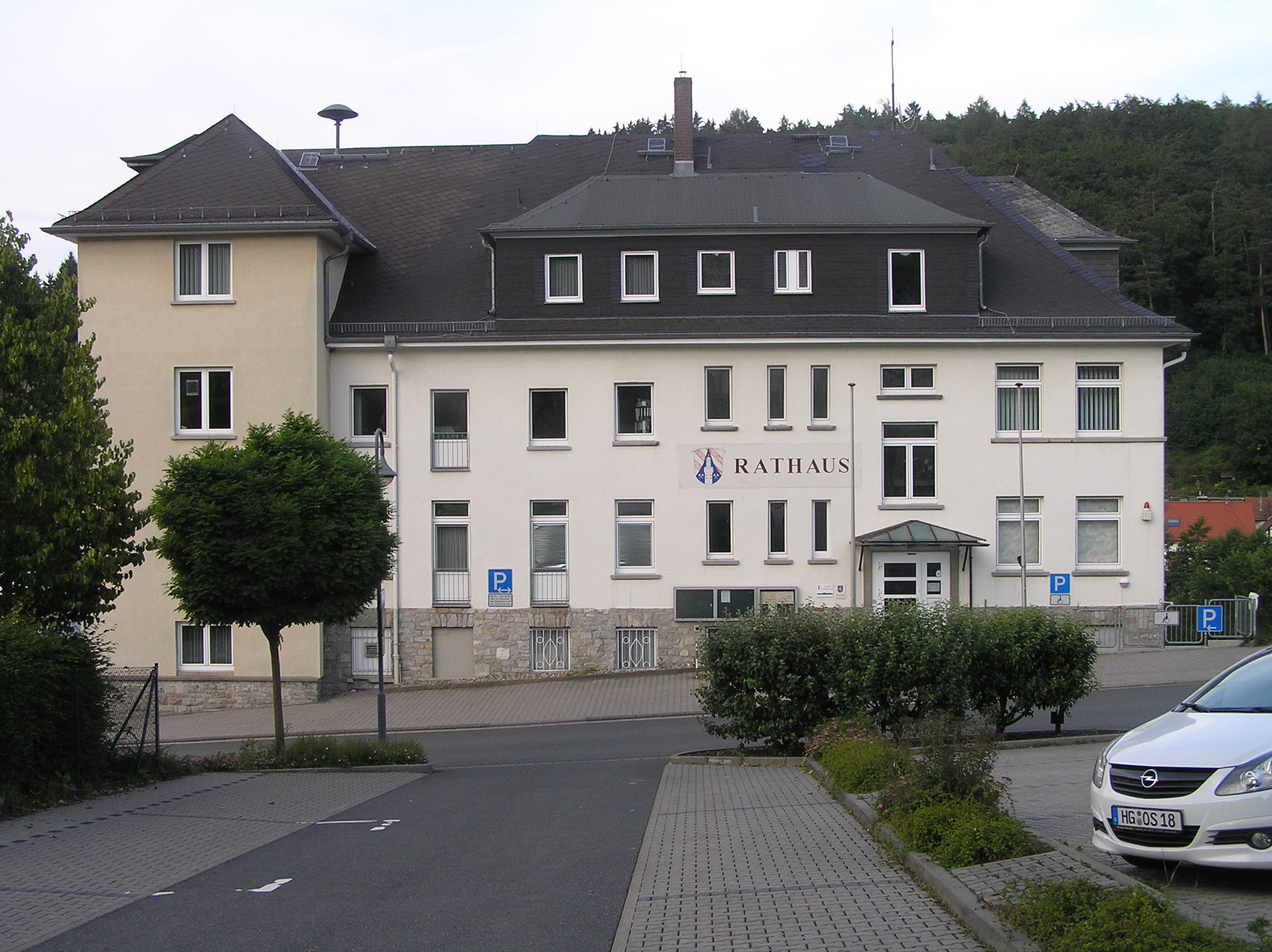 Town hall of Schmitten, Hesse, Germany